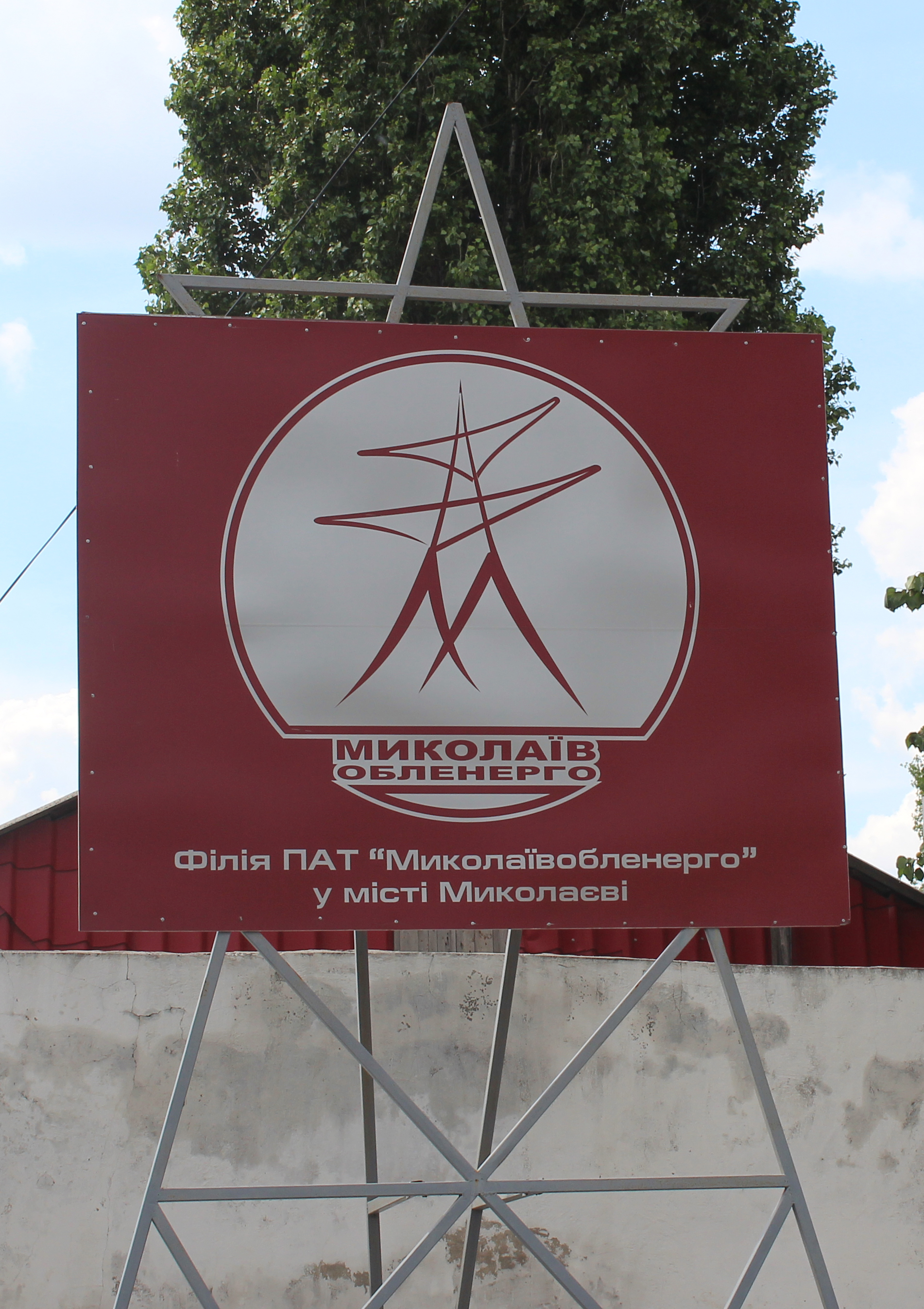 nikolaevoblenergo logo